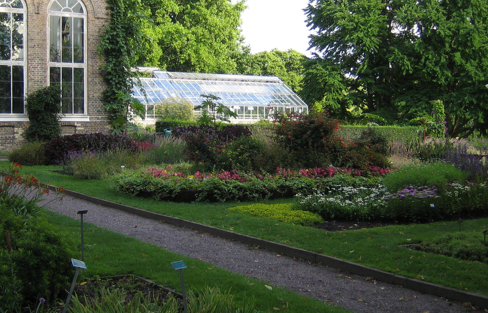 The botanical gardens in Lund, Sweden.